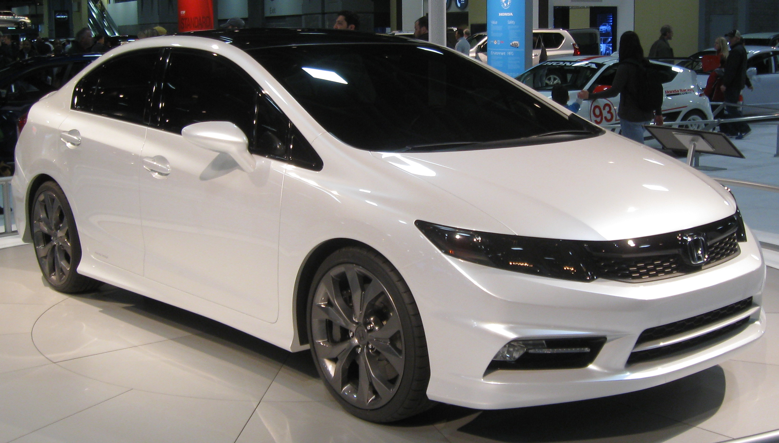 2012 Honda Civic concept photographed at the 2011 Washington (D.C.) Auto Show.